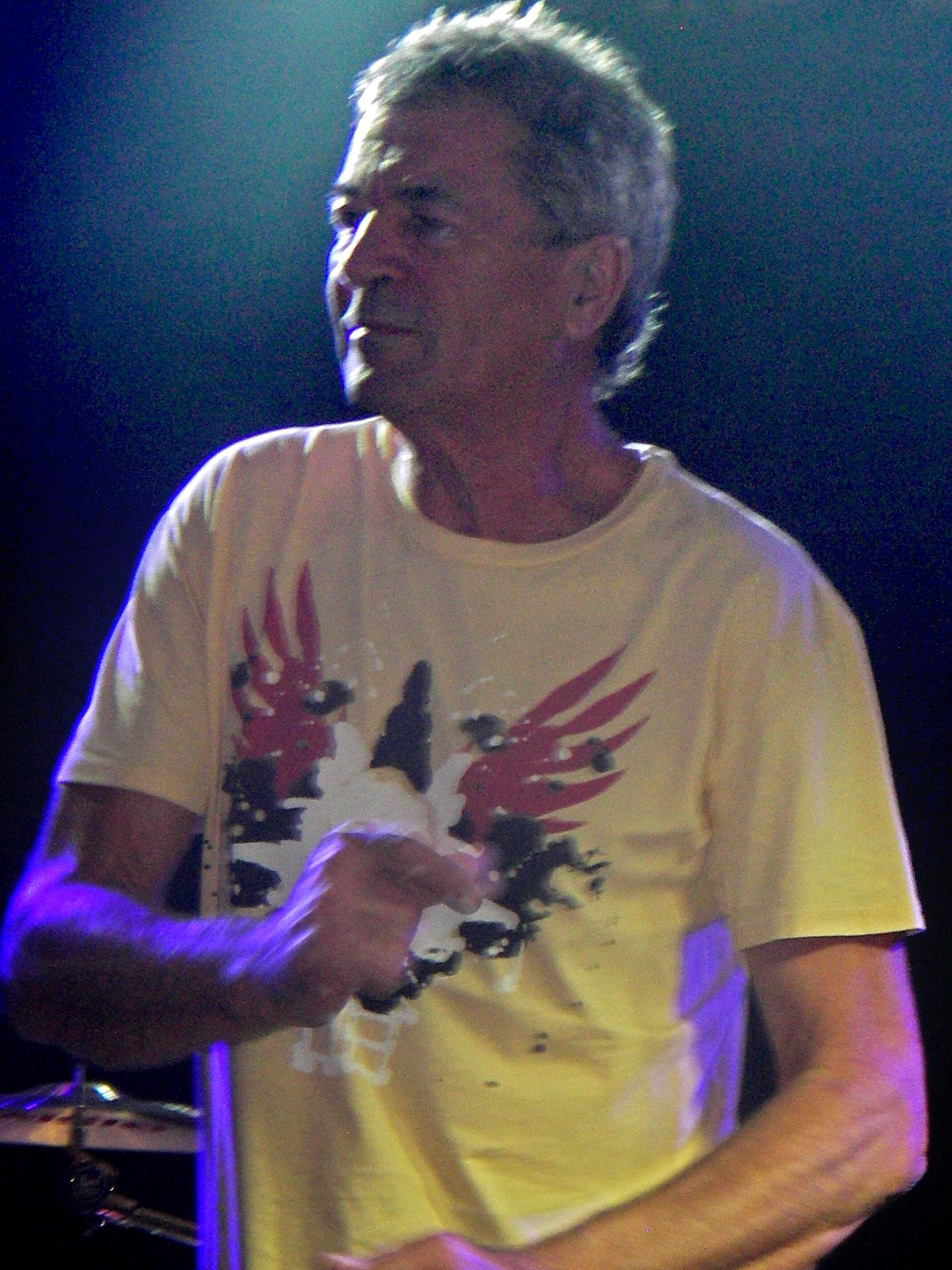 Ian Gillan at the Sunflower Jam, London, 2008.